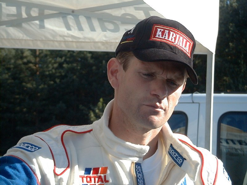 World Rally Championship WRC Rally Finland 2001